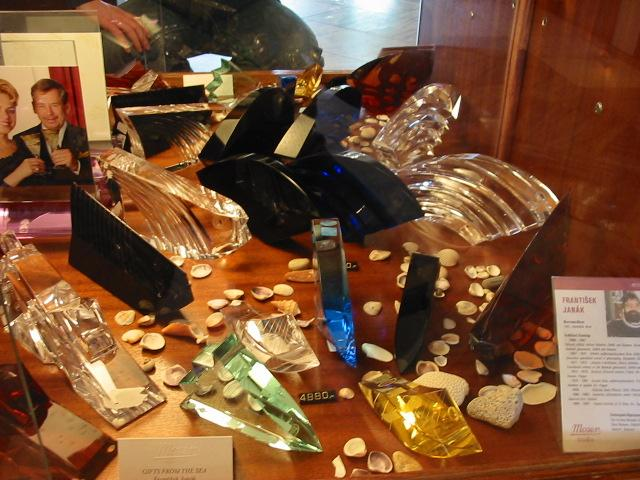 Examples of work by František Janák in the Moser glass factory in Karlovy Vary. Photo by Colm Rice